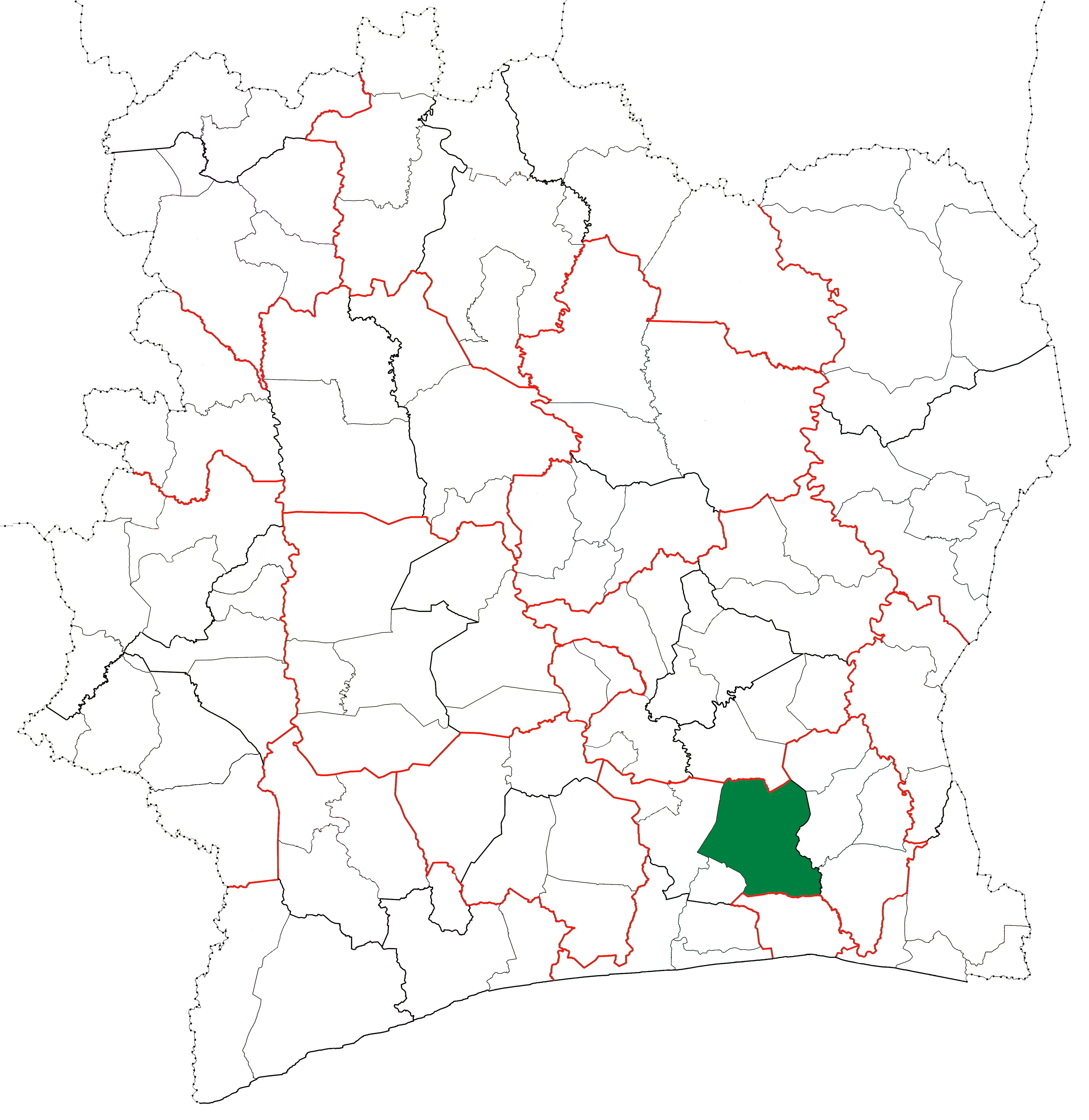 Locator map for Agboville Department in Côte d'Ivoire.